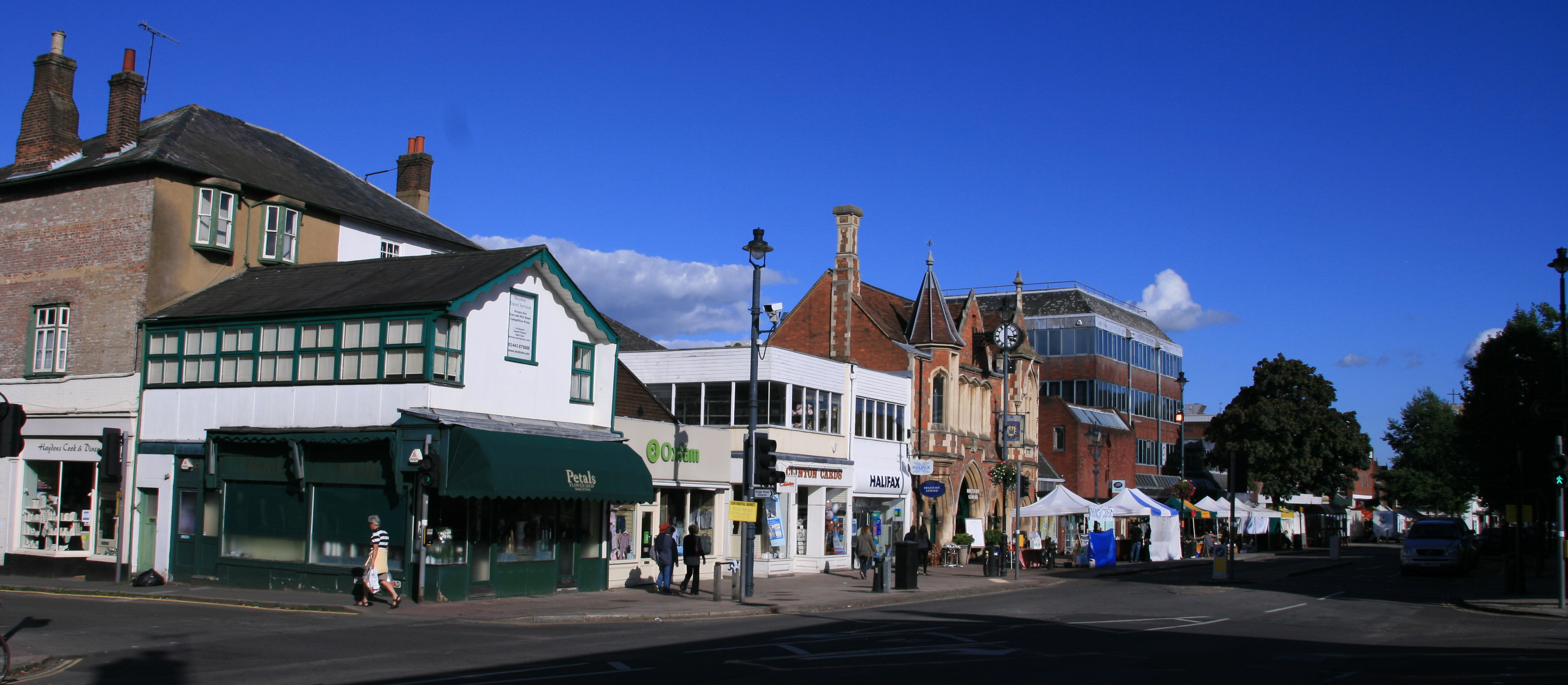 View of the High Street, Berkhamsted, UK